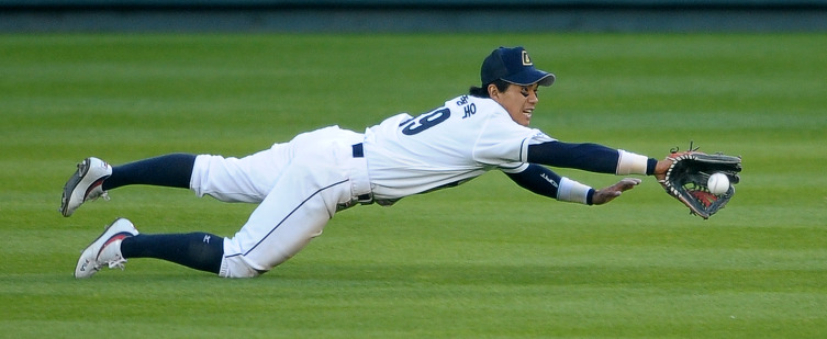 In the first half of the ninth inning of 2009 KBO League Postseason Playoff 3rd Game, Lee Jong-wook (baseball) made a diving catch from a ball hit by Jung Sang-ho.